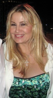 American actress Jennifer Coolidge.